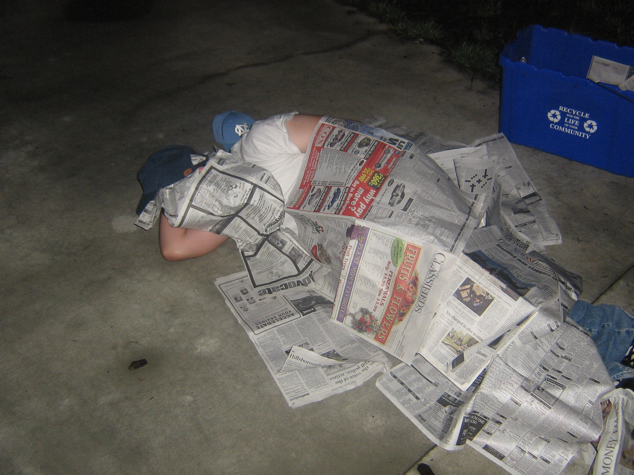 A homeless man sleeps under newspaper